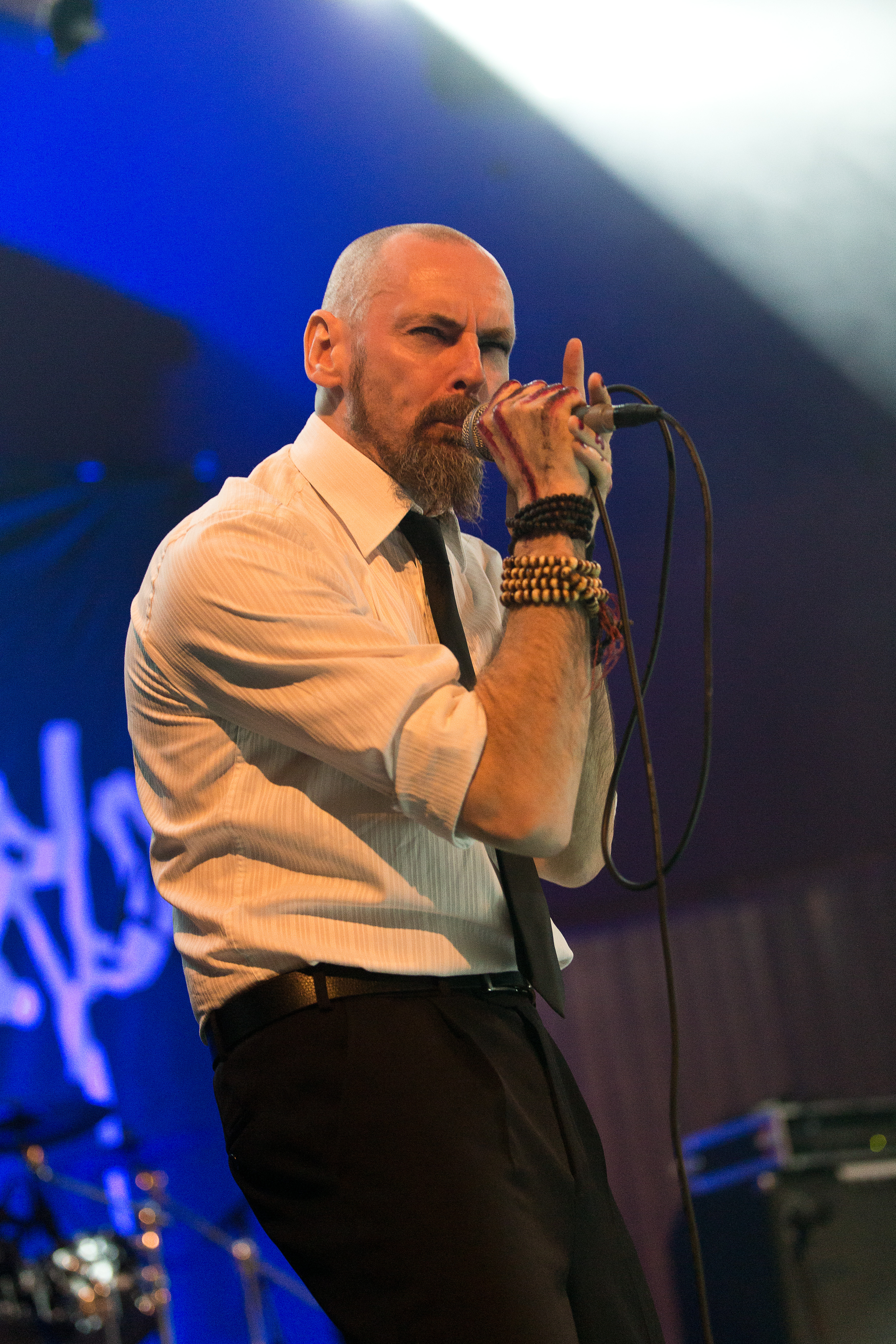 The British doom metal band My Dying Bride at the 25. Wave-Gotik-Treffen 2016 in Leipzig/Germany.